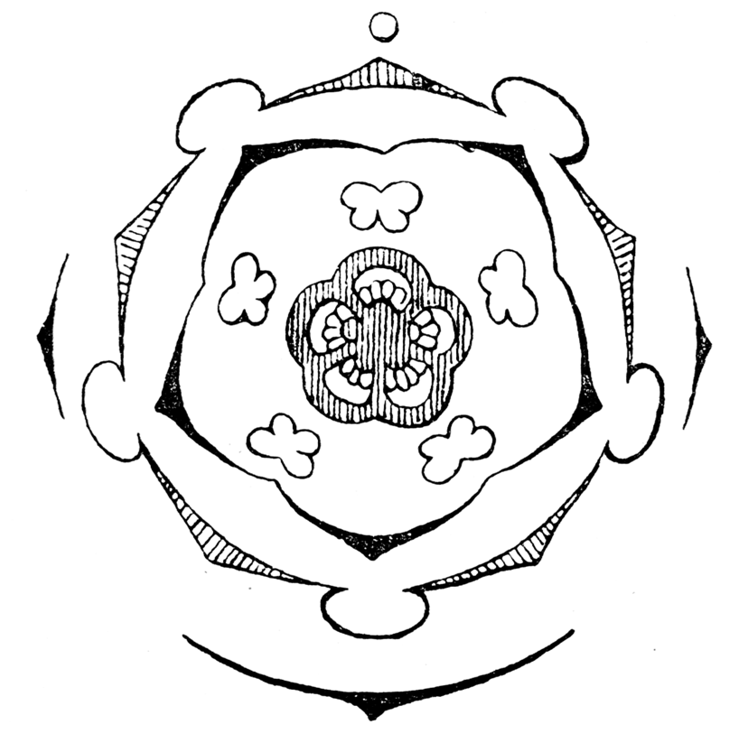 flower diagram of Campanula medium